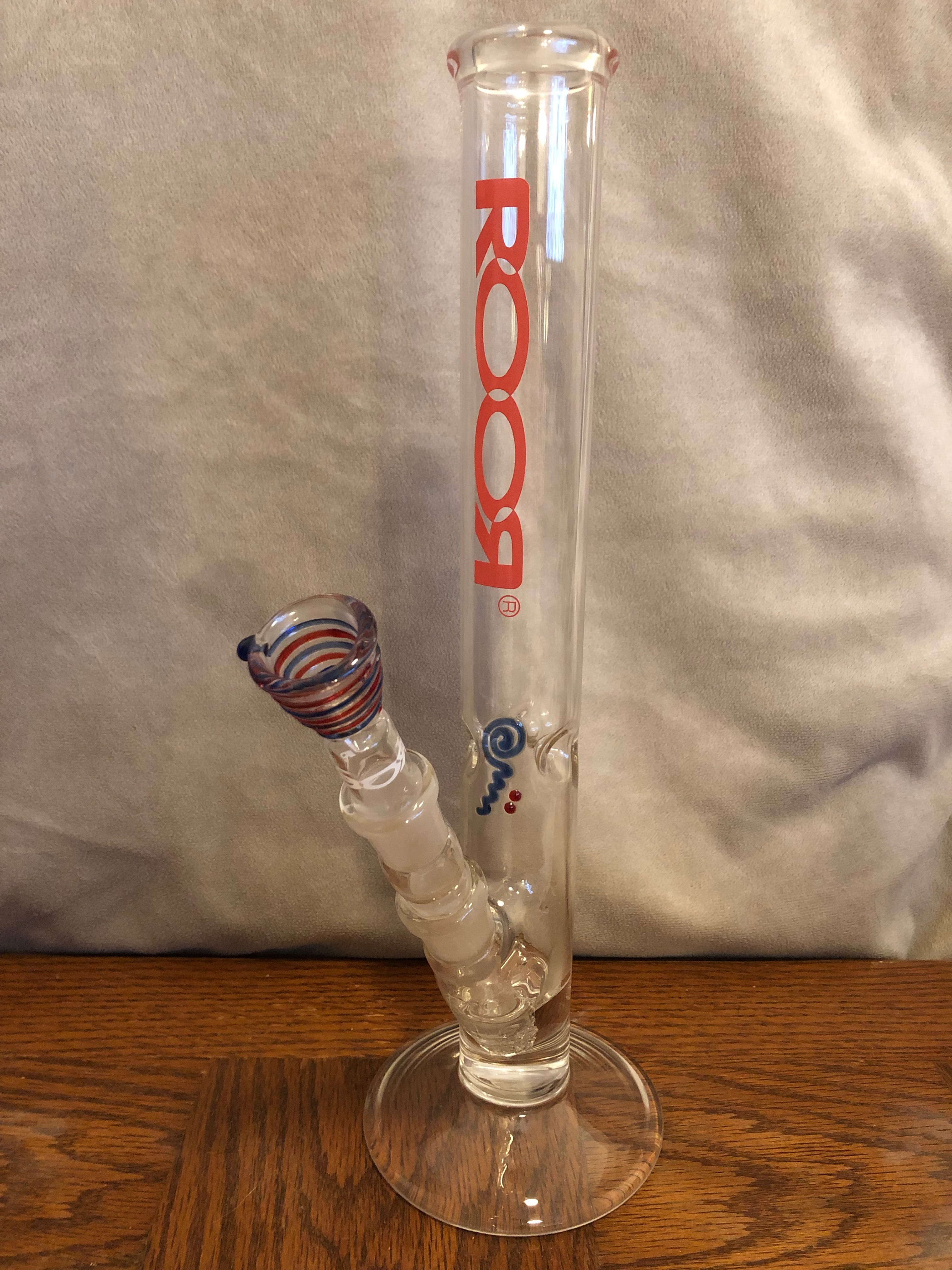 RooR bong with red label